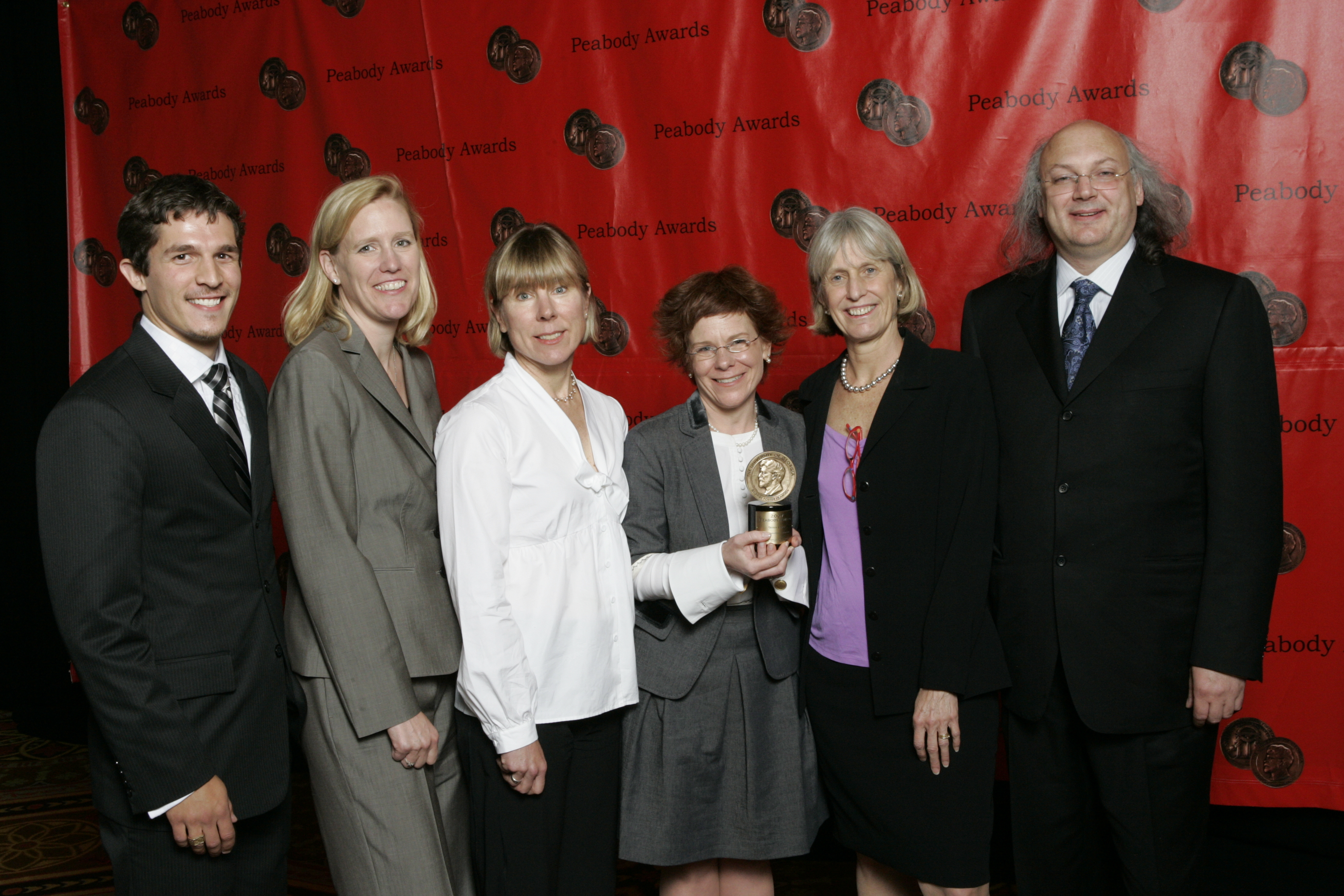 L to R: Nate Ball, Thea Sahr, Dorothy Dickie, Marisa Wolsky, unknown, David Wallace, 67th Annual Peabody Awards Luncheon Waldorf=Astoria Hotel New York, NY USA June 16, 2008